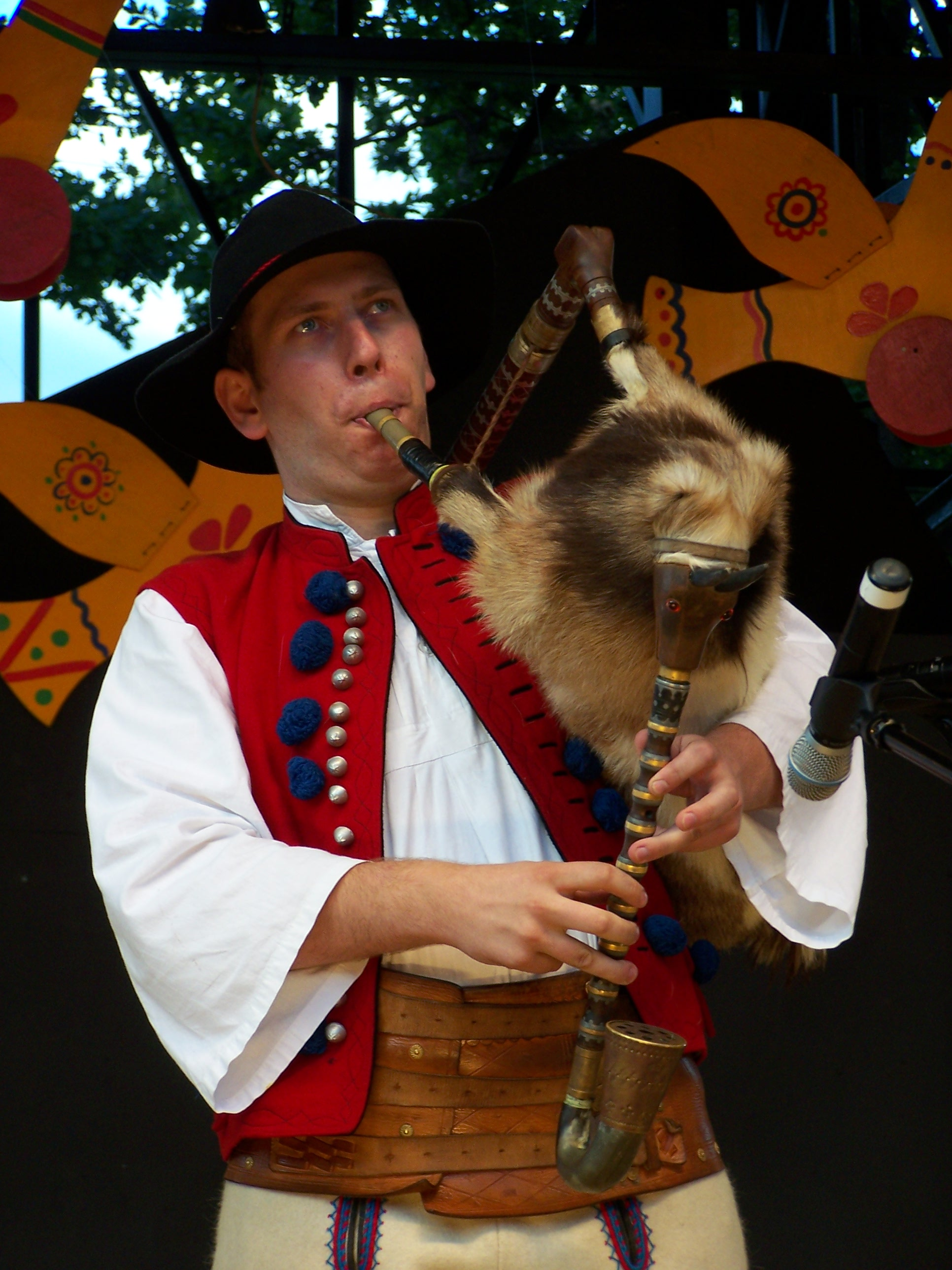 Fickowa Pokusa band. The 43rd Beskidy Highlanders' Week of Culture.